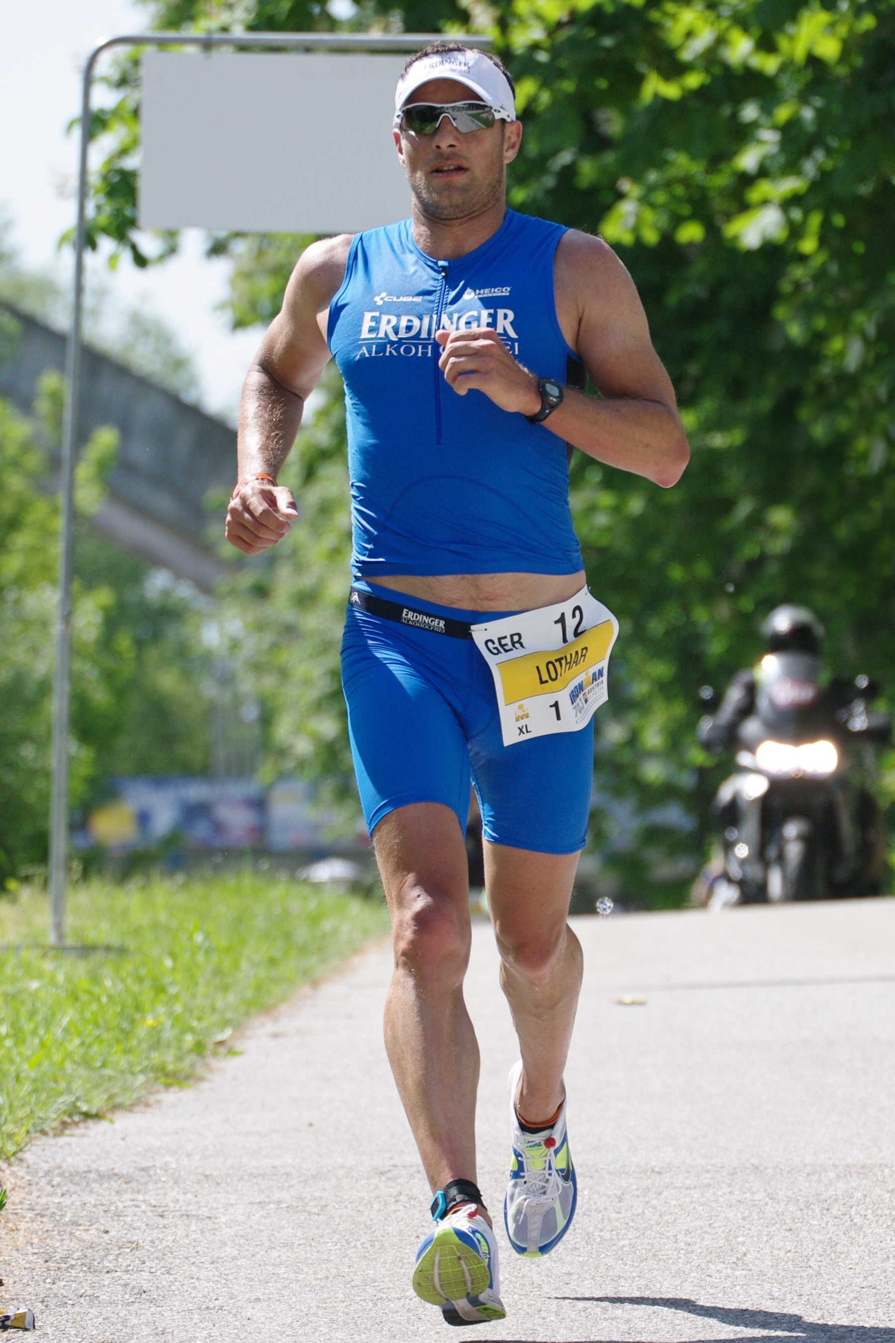 German triathlete Lothar Leder in the Ironman 70.3 Austria on 20 May 2012 in St. Pölten.